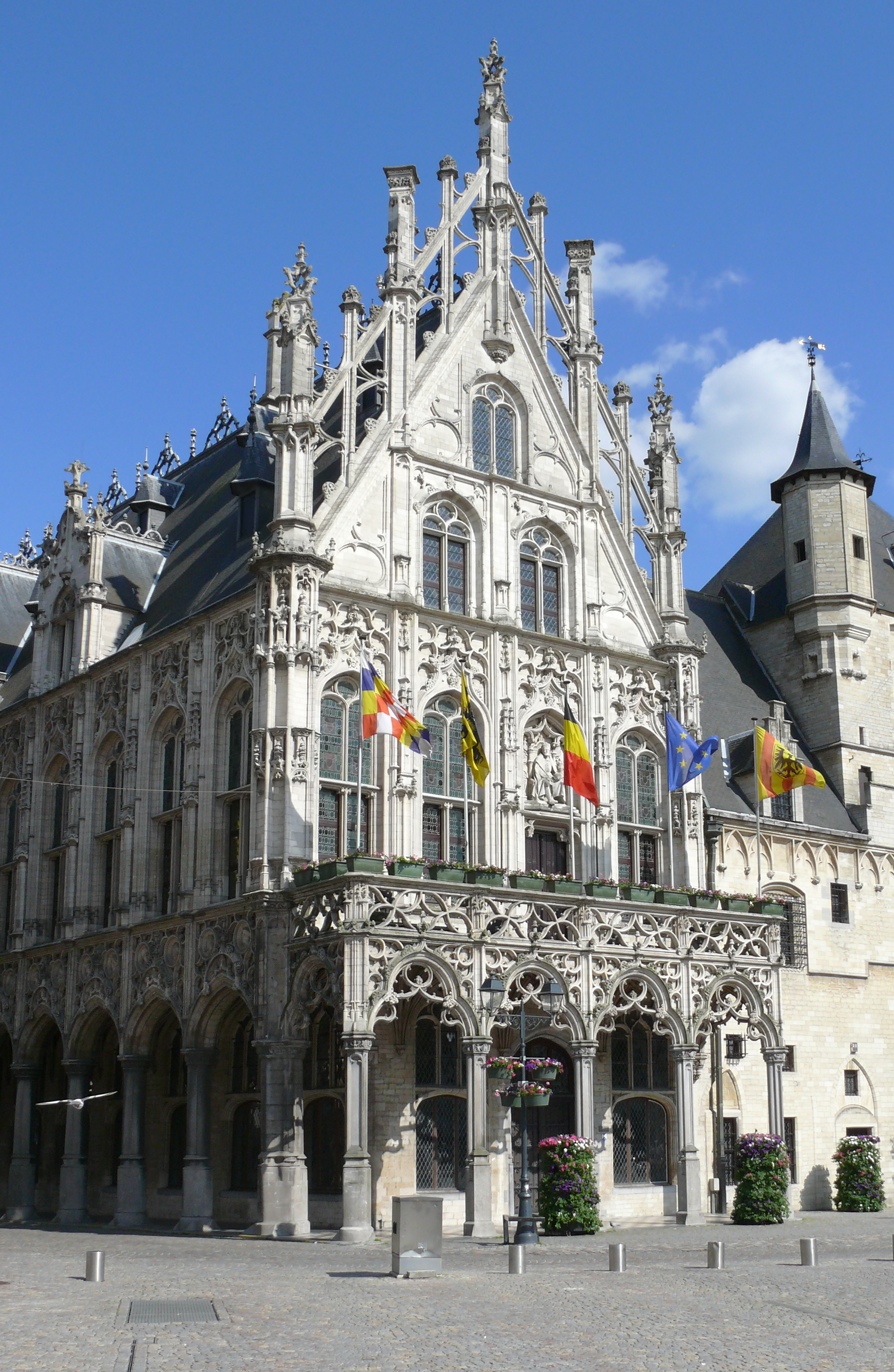 Palace of the Great Council of Mechlin, now part of the City Hall. It was built in 1526 by Rombout II Keldermans. It was however never finished. In 1900-1911 it was finished by the architects Van Boxmeer and Langerock on the basis of the original drawings.